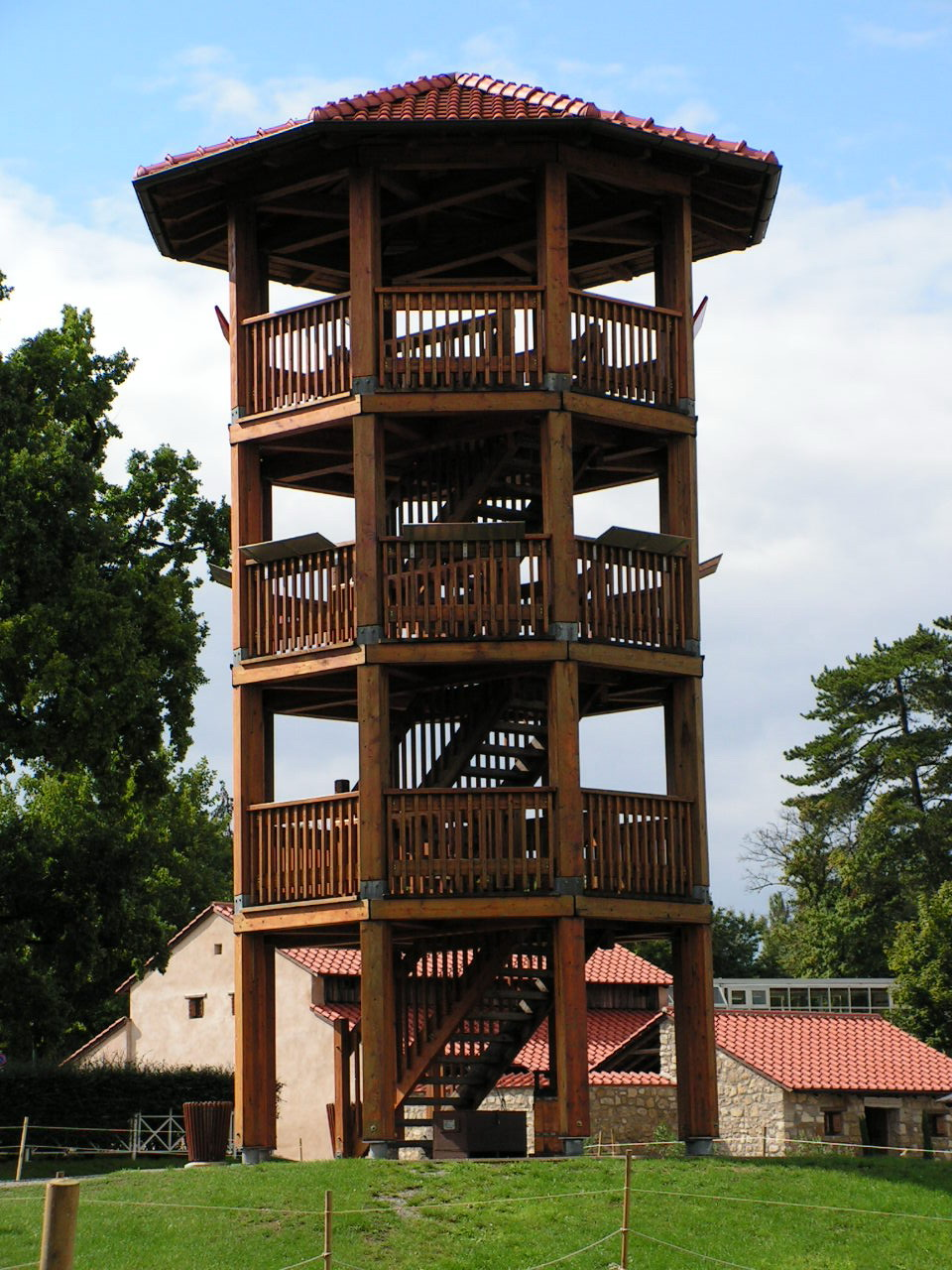 Carnuntum, Freilichtmuseum Petronell Dieses Bild wurde anlässlich des österreichischen Tags des Denkmals 2012 in Niederösterreich eingereicht.